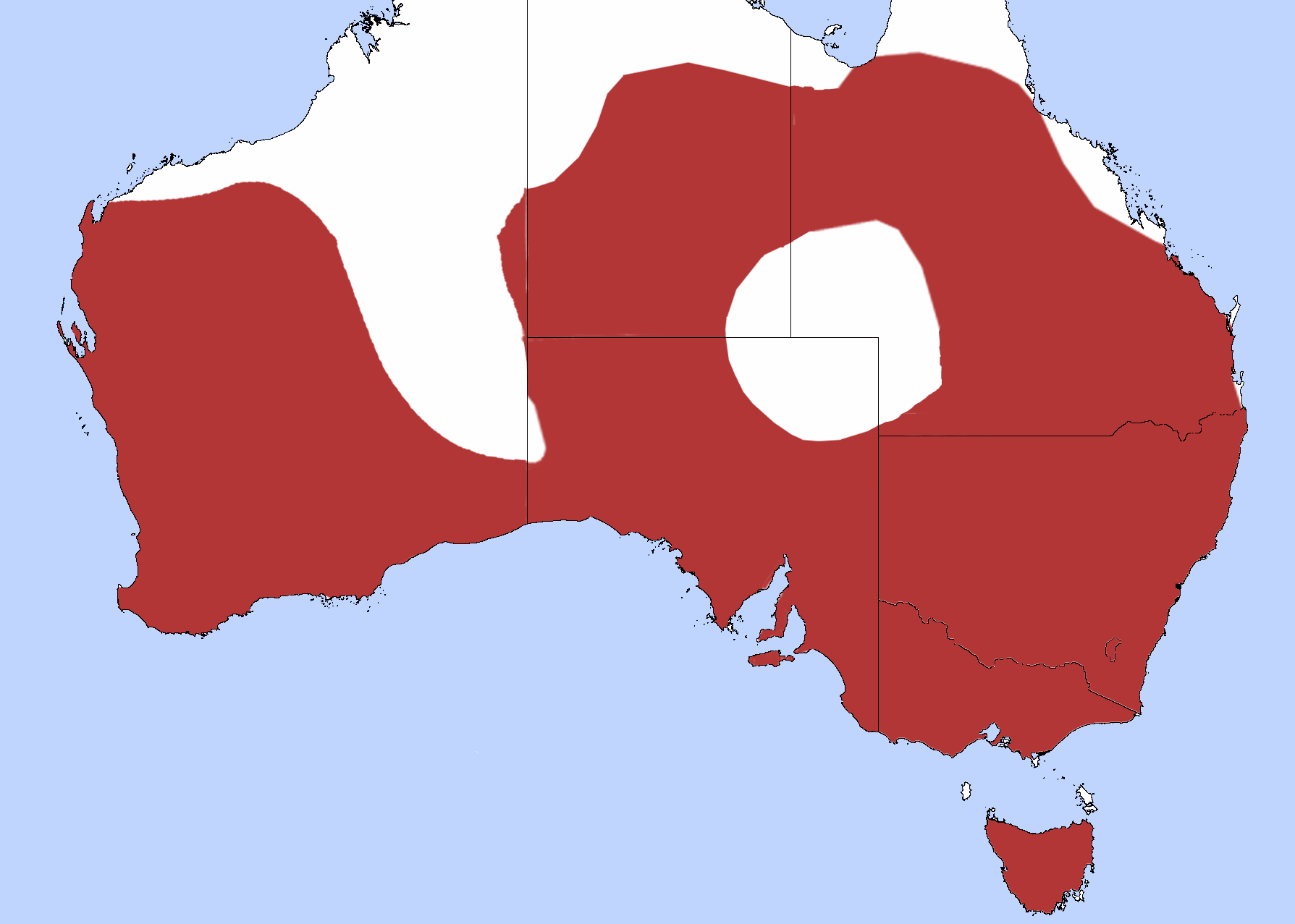 The Yellow-rumped Thornbill's Distribution.